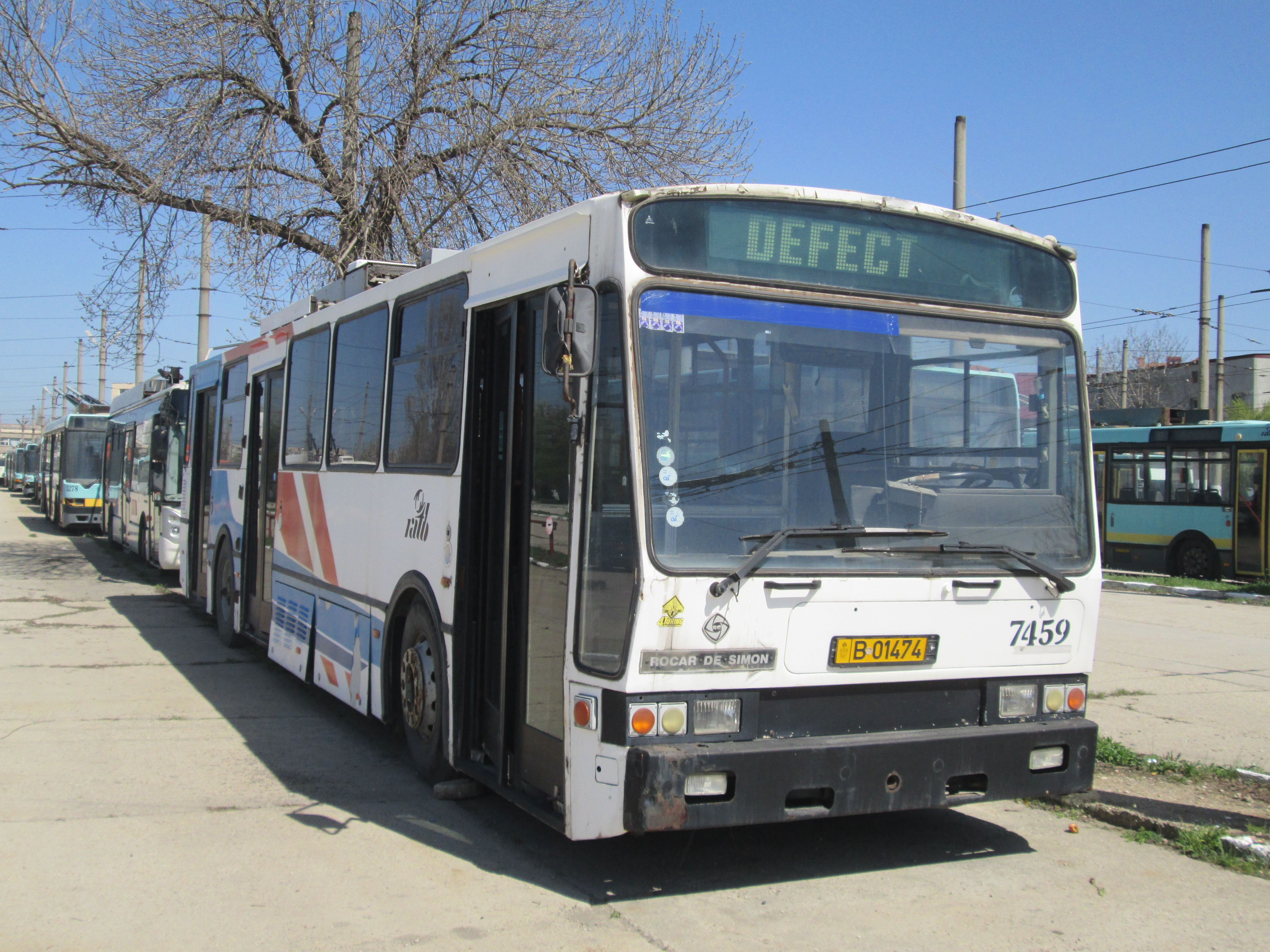 Rocar DeSimon 412EA trolleybus number 7459 (manufactured 1999) in the Bujoreni depot awaiting for better days...